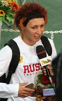 World Athletics Championships 2007 in Osaka - women's long jump winner Tatyana Lebedeva giving an interview after her victory